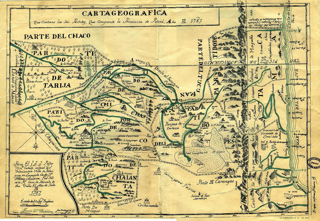 Mapa cartográfico de la Provincia de Potosí, 1787